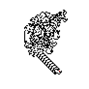 Langton's ant after 11000 cycles.